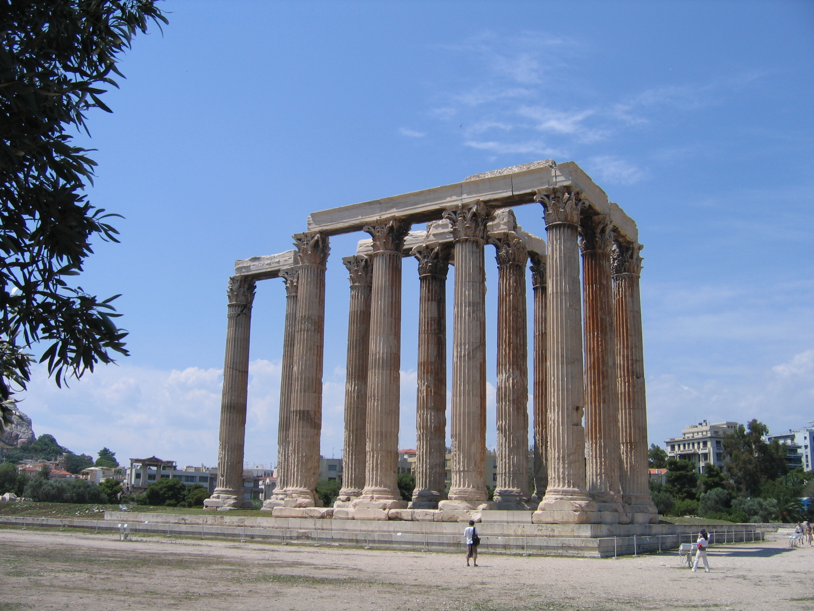 Temple of Olympian Zeus in Athens